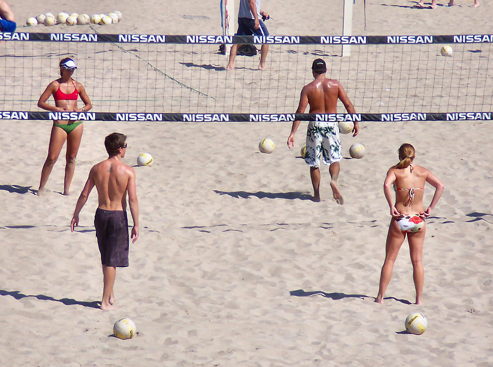 Beach volleyball players; Huntington Beach, California.